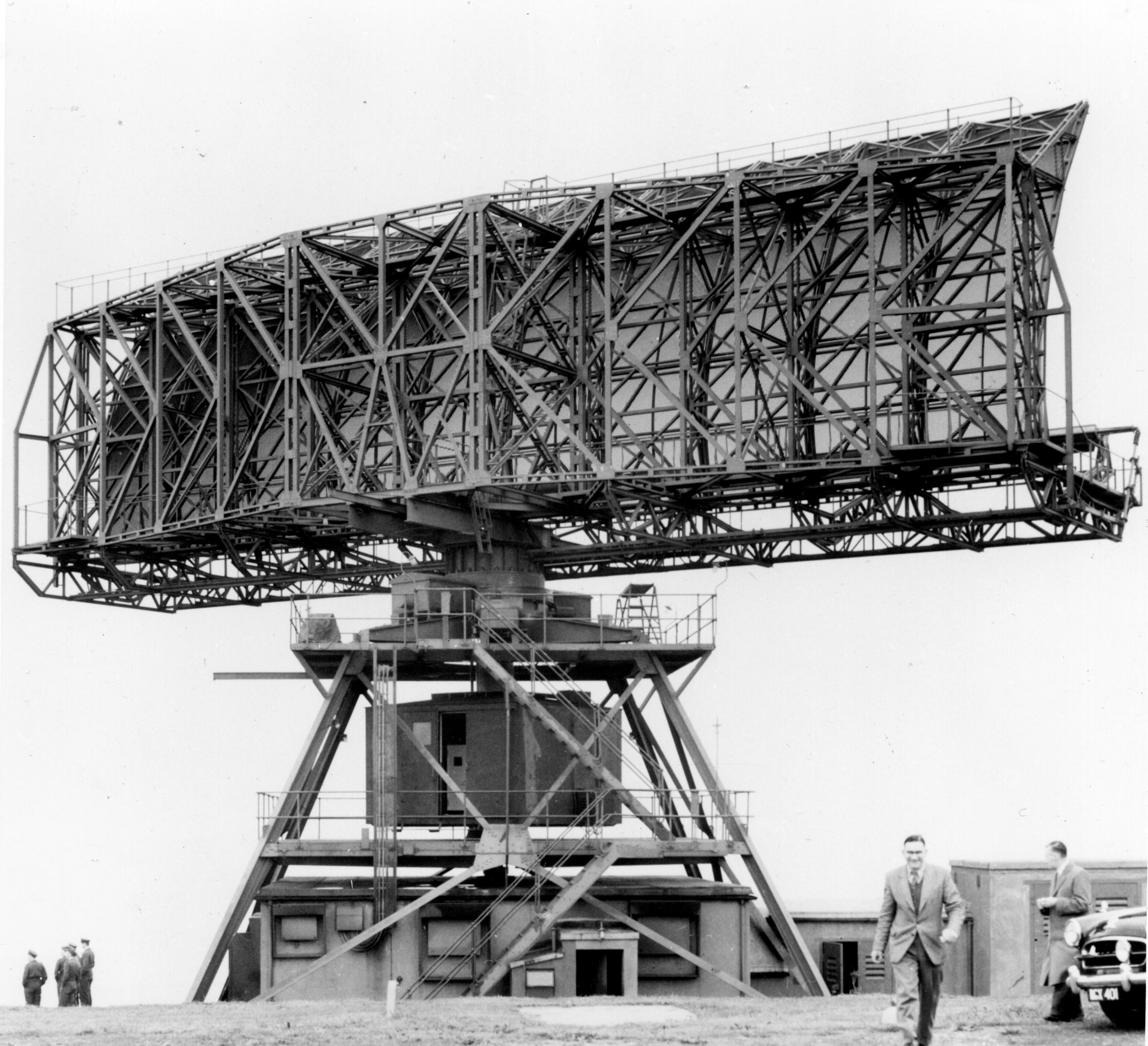 The prototype AMES Type 80, codenamed Greed Garlic, was built at RAF Bard Hill in 1953. Here it is seen during the preparations to start it up for the first time. A similar image with the man in the right foreground having moved closer to the photographer is widely found on the 'net.